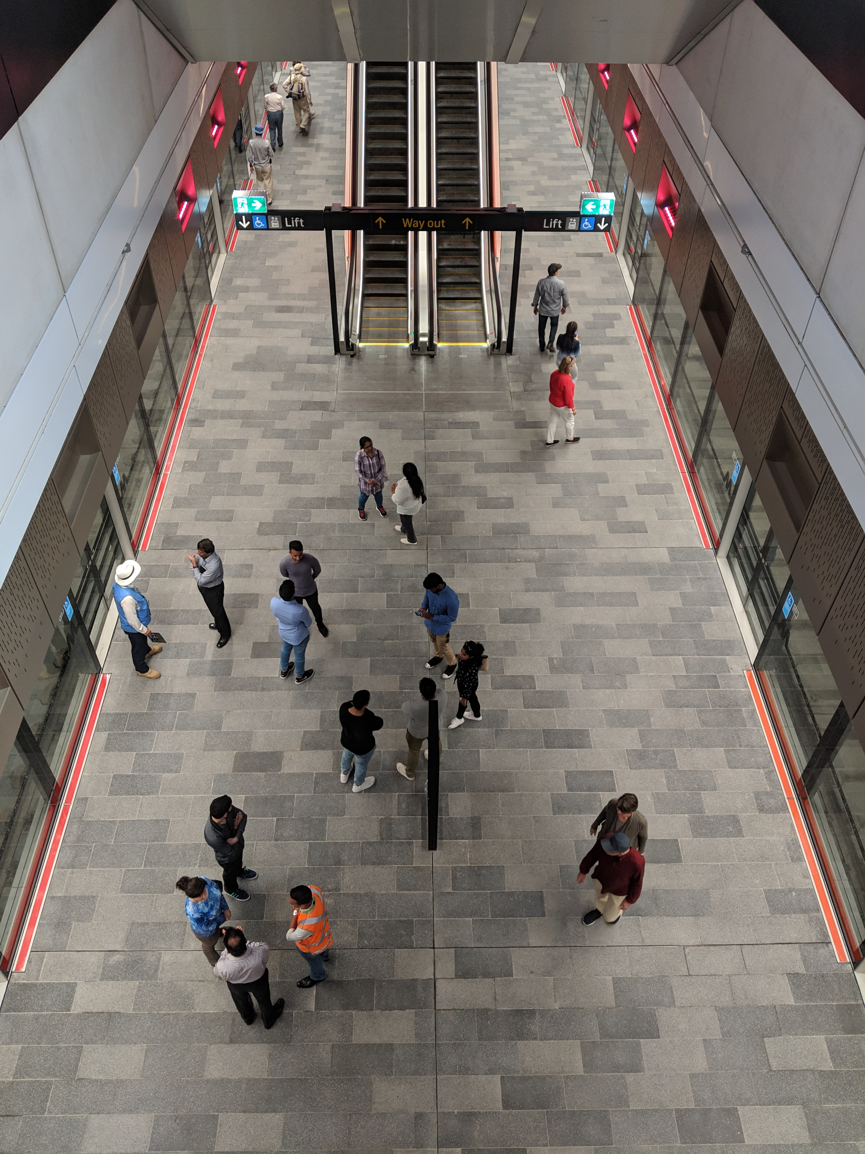 Sydney Metro Hills Showground Station